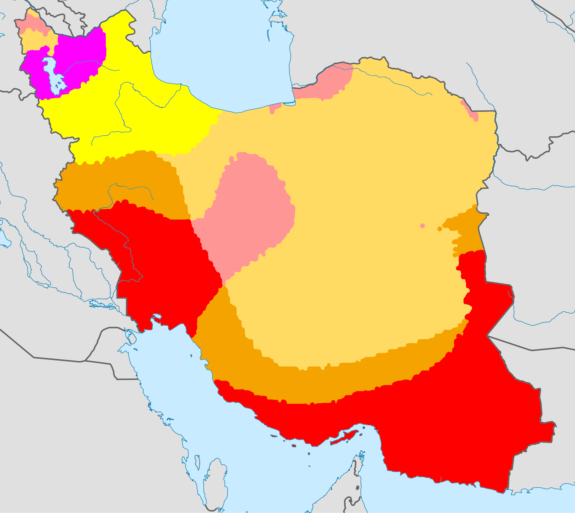 Climate map of Iran, using the Köppen-Geiger climate classification